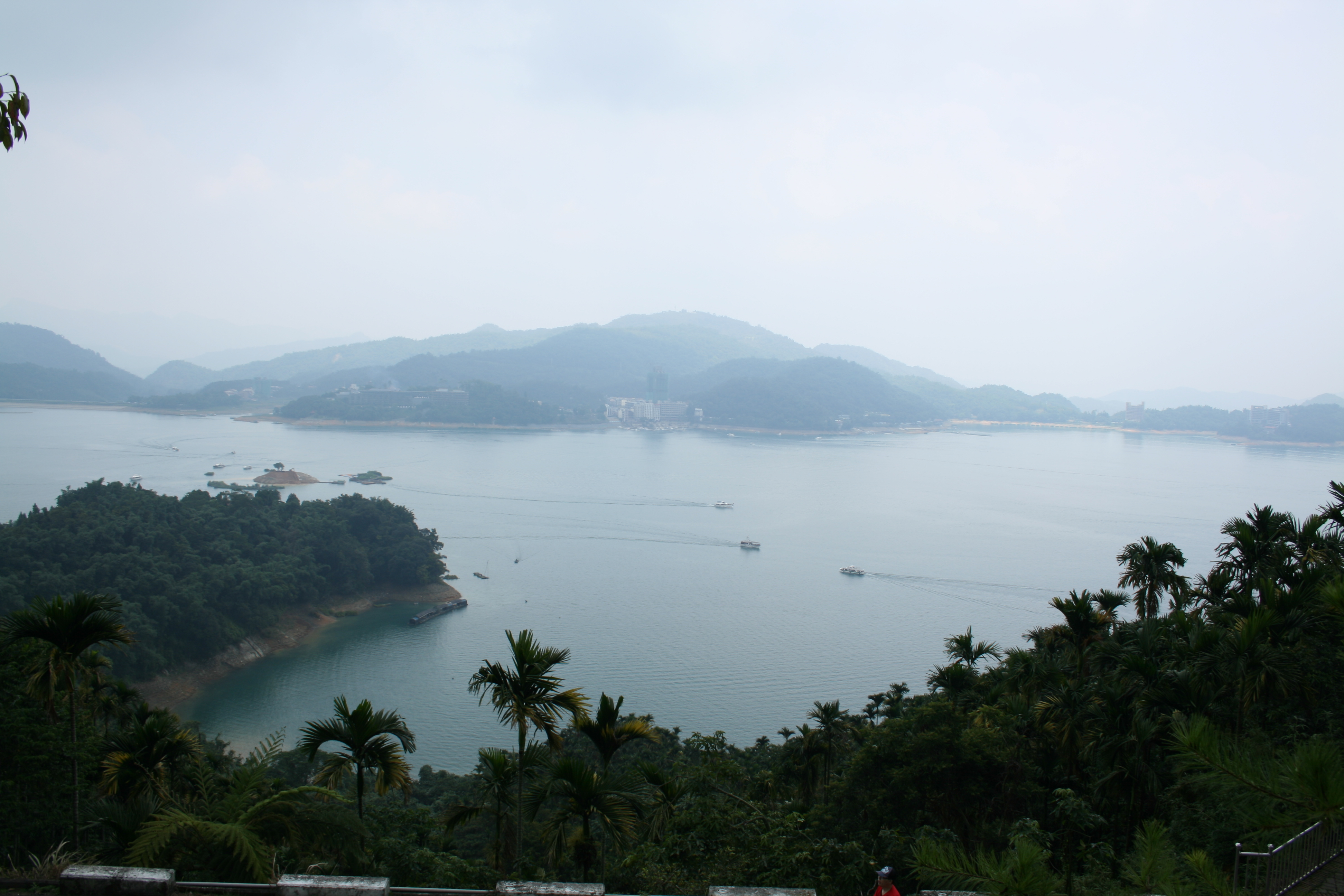 The Sun Lake of the Sun Moon Lake, taken from the Xuanzang Temple